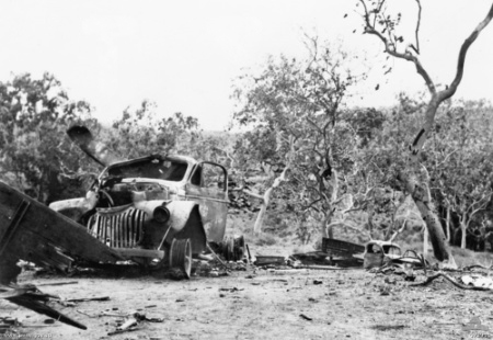 Two of five trucks carrying members of the 2/33rd Infantry Battalion and the 158th General Transport Company which were destroyed when a B-24 Liberator bomber crashed into the marshaling park near Jackson's Airfield on 7 September 1943, causing the death of 59 men and injuries to 92. The eleven members of the Liberator's crew also died in the accident.